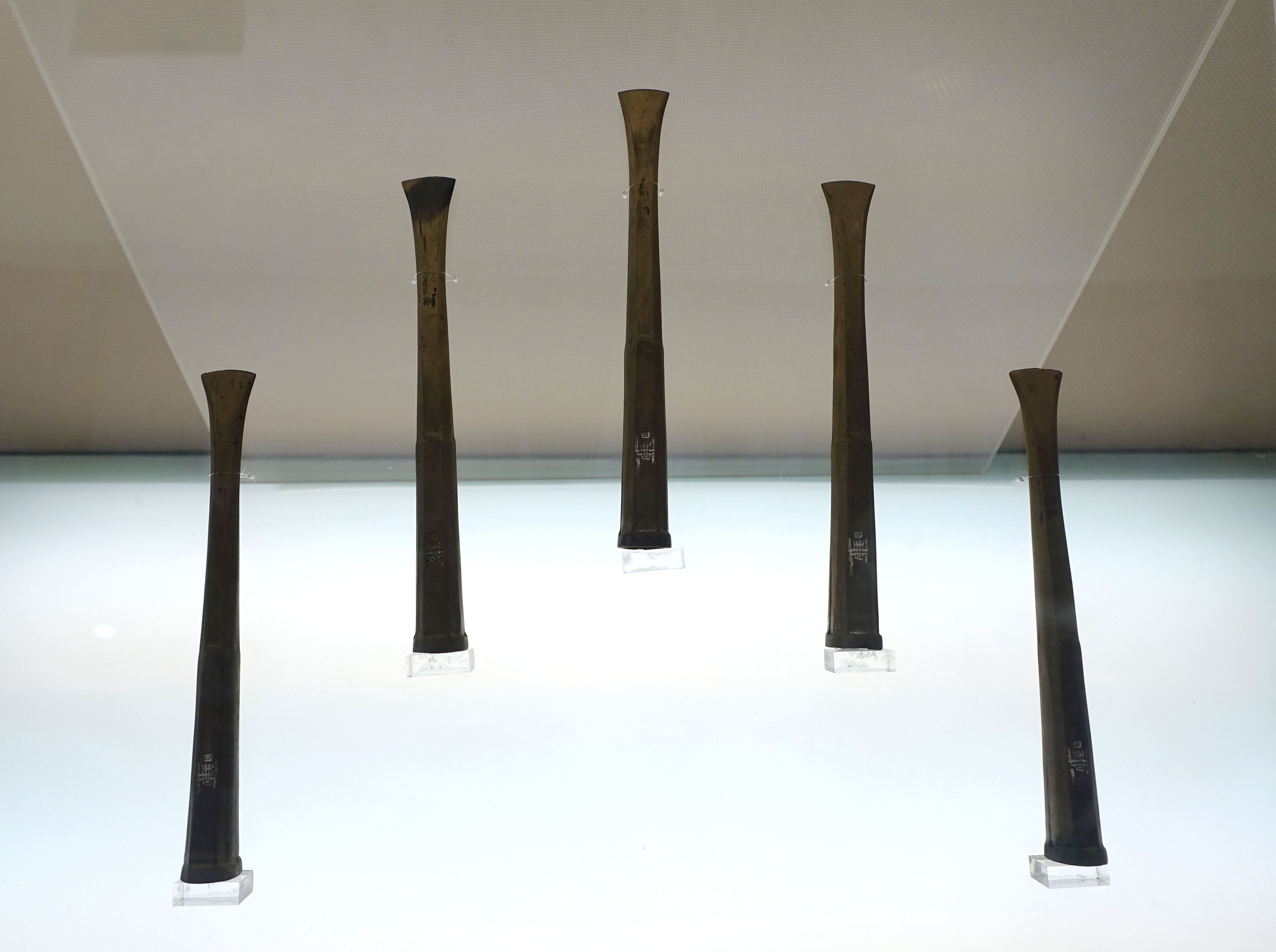 Exhibit in the Sichuan Provincial Museum (四川省博物院), also known as the Sichuan Museum, 251 Huanhua S Road, Chengdu, Sichuan, China. This work is old enough so that it is in the public domain.